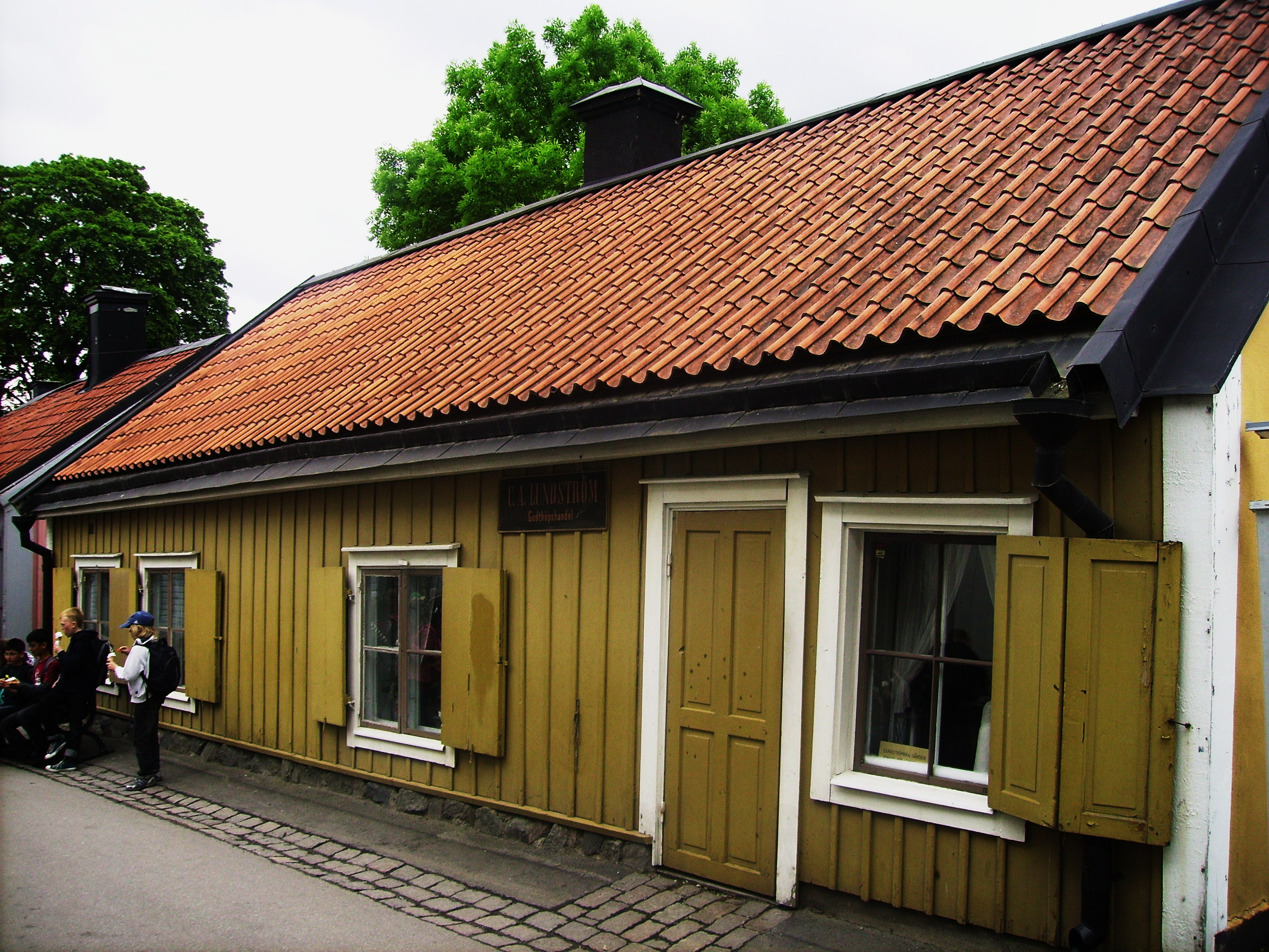 Picture of Lundströmska gården (museum) in Sigtuna.